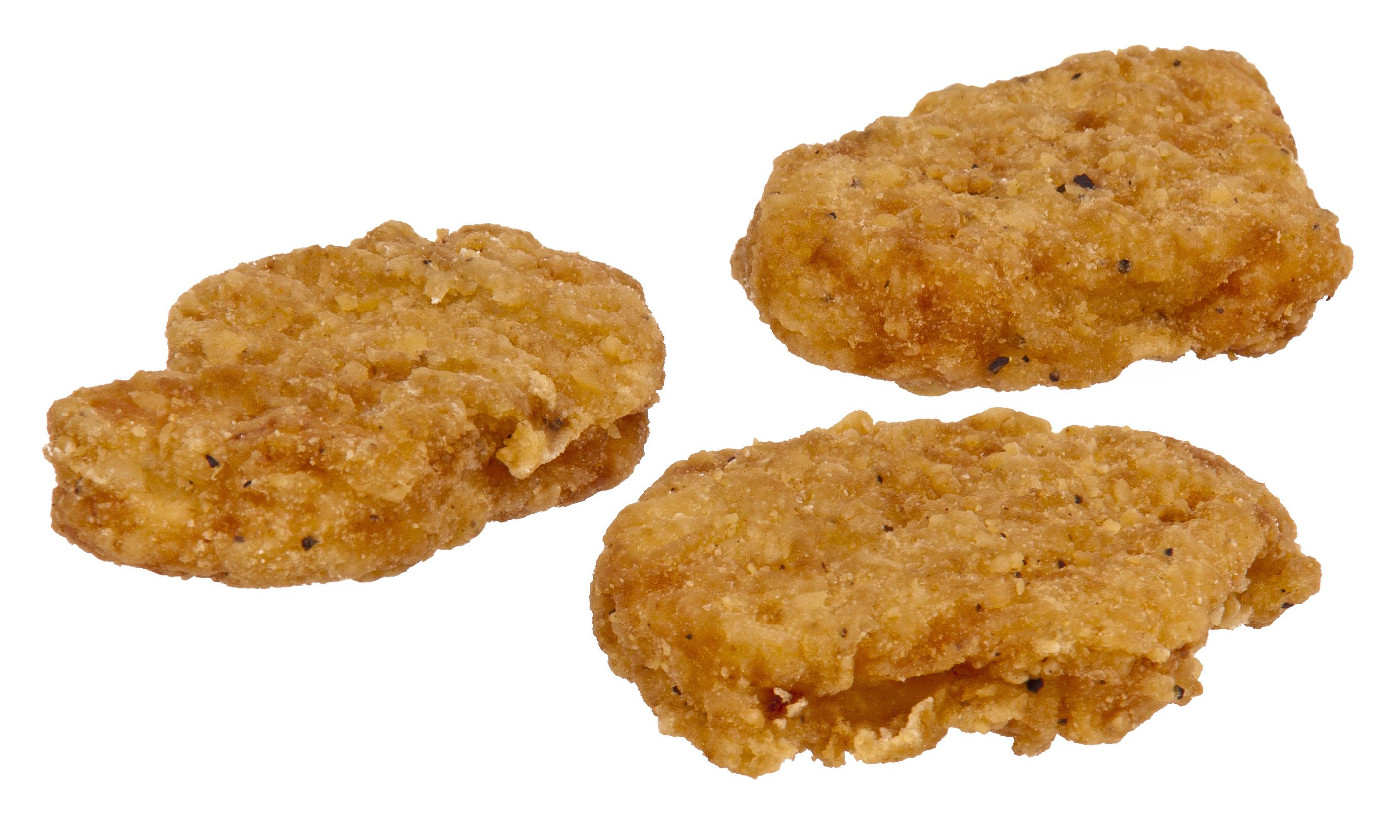 Four Burger King Chicken Tenders.